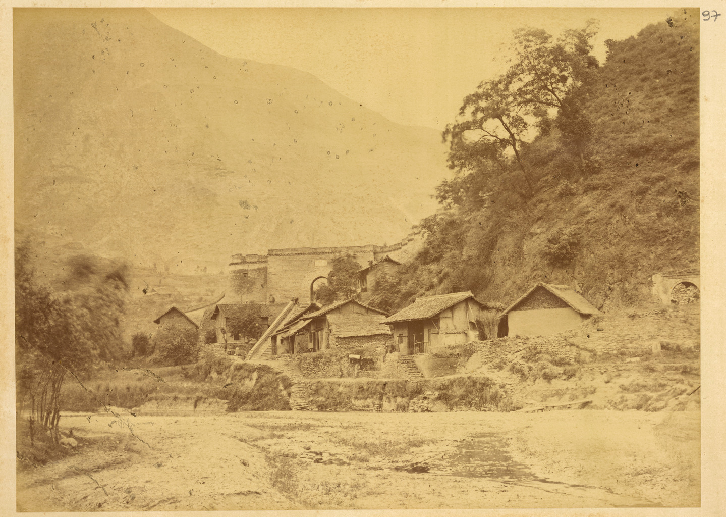 In 1874-75, the Russian government sent a research and trading mission to China to seek out new overland routes to the Chinese market, report on prospects for increased commerce and locations for consulates and factories, and gather information about the Dungan Revolt then raging in parts of western China. Led by Lieutenant Colonel Iulian A. Sosnovskii of the army General Staff, the nine-man mission included a topographer, Captain Matusovskii; a scientific officer, Dr. Pavel Iakovlevich Piasetskii; Chinese and Russian interpreters; three non-commissioned Cossack soldiers; and the mission photographer, Adolf Erazmovich Boiarskii. The mission proceeded from Saint Petersburg to Shanghai via Ulan Bator (Mongolia), Beijing, and Tianjin, and then followed a route along the Yangtze River, along the Great Silk Road through the Hami oasis, to Lake Zaysan, back to Russia. Boiarskii took some 200 photographs, which constitute a unique resource for the study of China in this period. Most of the photographs are included in this album, which later became part of the Thereza Christina Maria Collection assembled by Emperor Pedro II of Brazil and given by him to the National Library of Brazil. Buildings; Dwellings; Memory of the World; Mountains